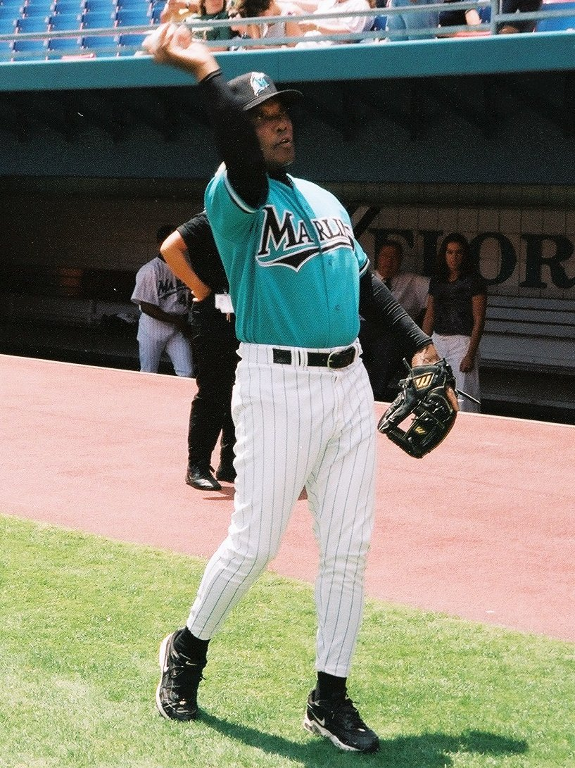 Secretary Mel Martinez on visit to Miami, Florida for speeches, meetings, tours, including appearance at breakfast hosted by Cuban-American leaders; and appearance at Pro Players Stadium to throw out the first pitch at a Florida Marlins baseball game, to meet and greet group of 40 Miami Housing Authority children, and to attend a Catholic Charities USA reception.